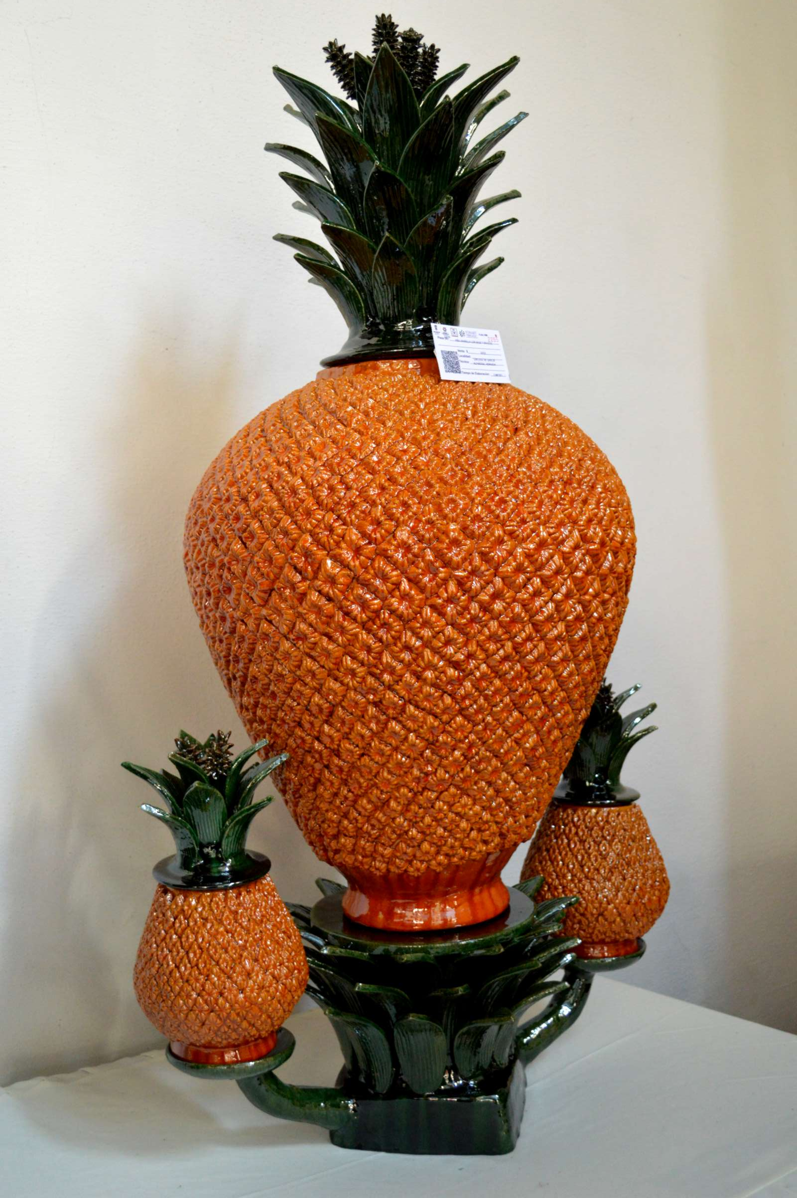 Pineapple ceramic piece from San Jose de Gracia competing at the state handcraft competition of the Tianguis de Domingo de Ramos in Uruapan, Michoacan, Mexico